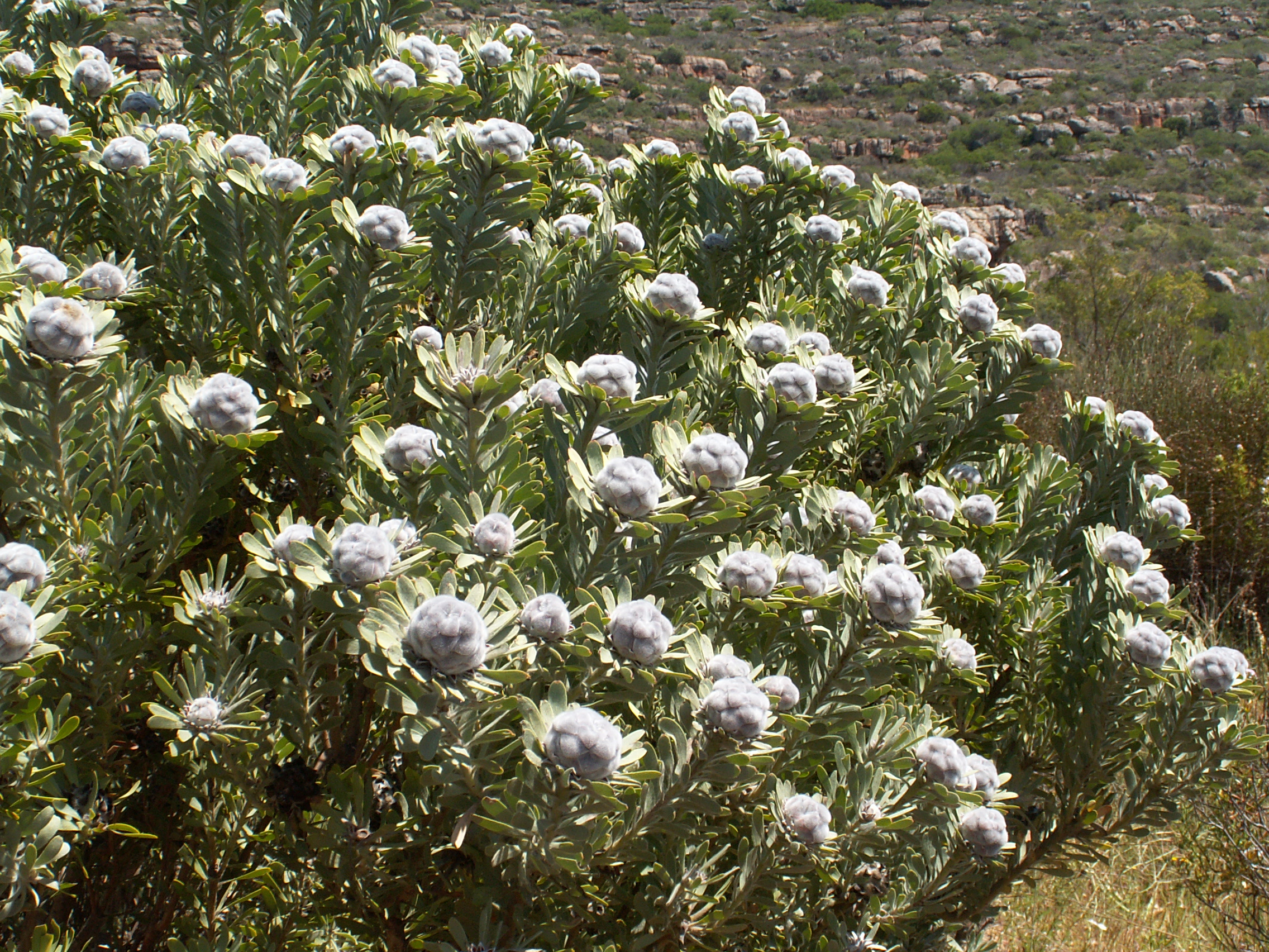 Grey Conebush Leucadendron pubescens R.Br., Proteaceae , near Clanwilliam, Western Cape, South Africa Hornjoserbsce: Leucadendron pubescens R.Br., muske kćenje, Clanwilliam, južna Afrika